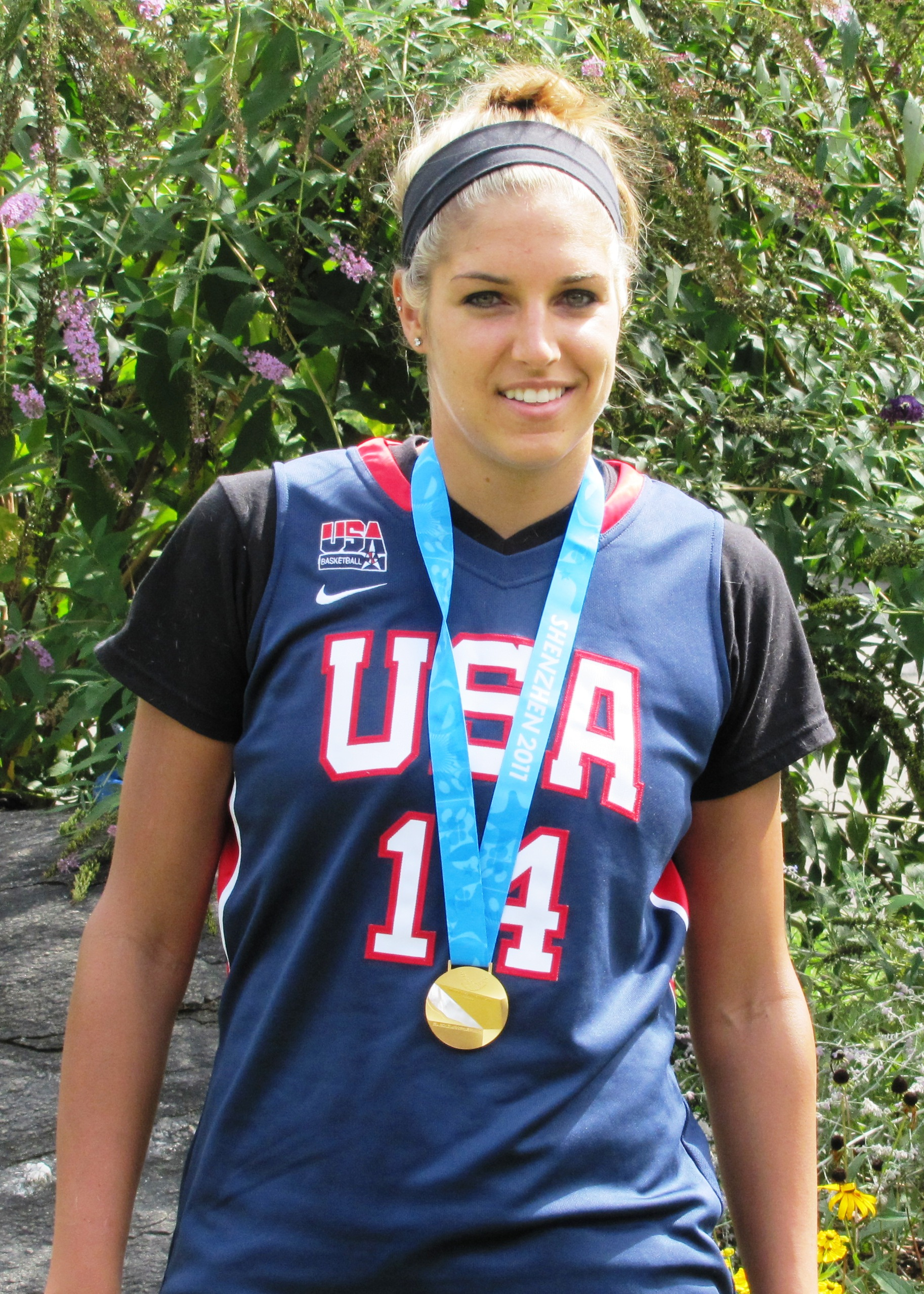 Elena Delle Donne, wearing the jersey and gold medal won as a member of the USA women's basketball team at the XXVI Summer Universiade in China.